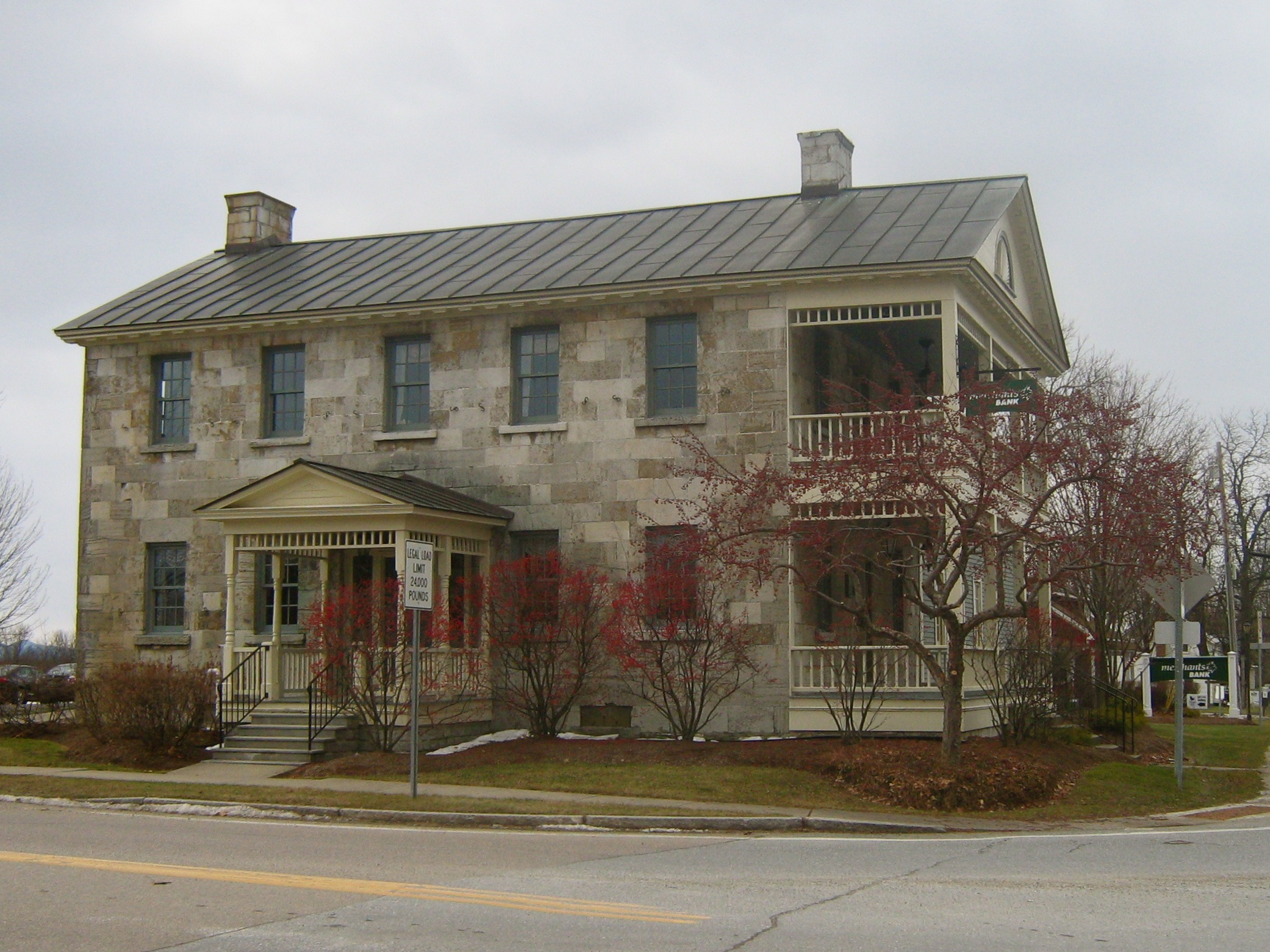 Former South Hero Inn, South Hero, Vermont. Now a bank branch.